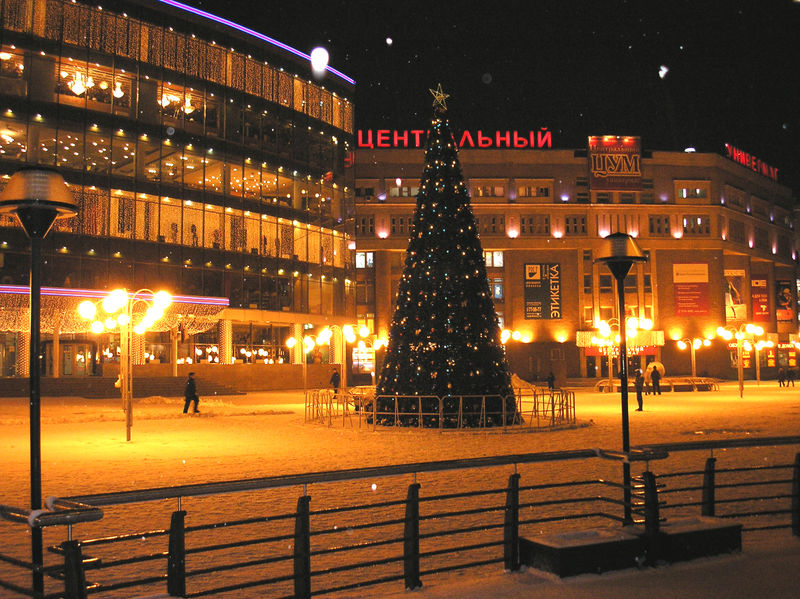 New Year season at Revolution Square near the Moscow Station, in Nizhny Novgorod's Kanavino district